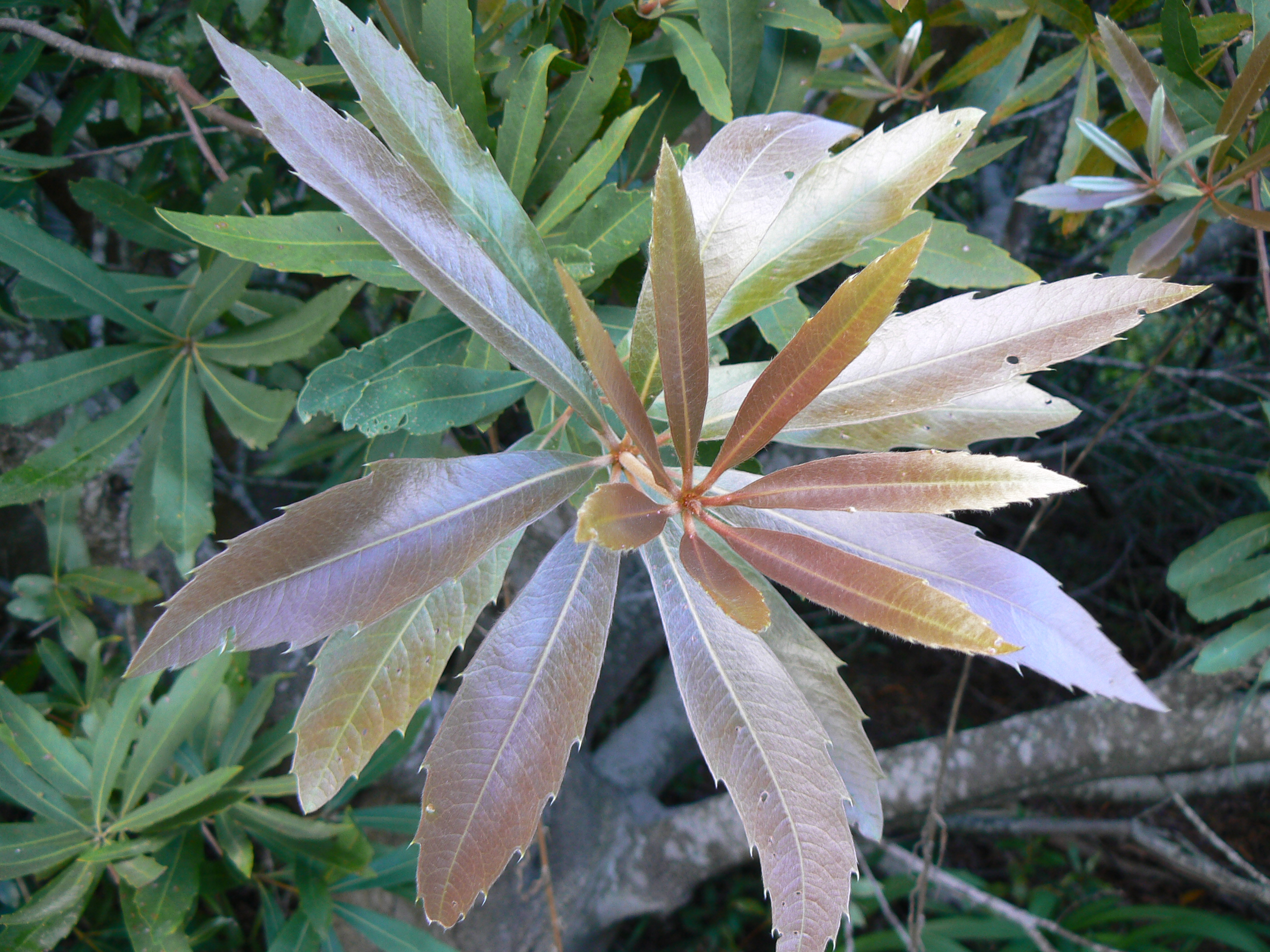 Brabejum stellatifolium - new growth